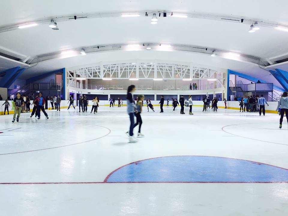 Ice skating , birthdays , teambuilding , large events , ice hockey, figure skating , learn to skate lessons.